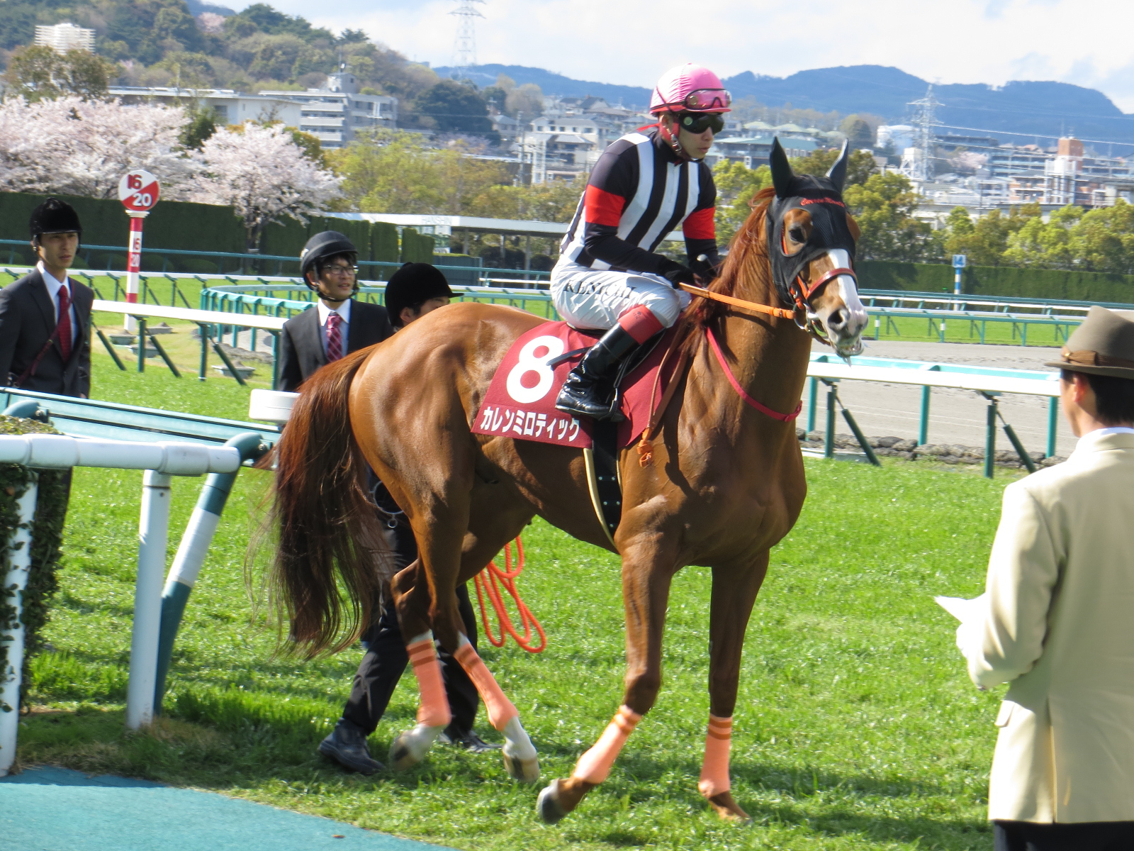 Curren Mirotic (Racehorse of Japan).